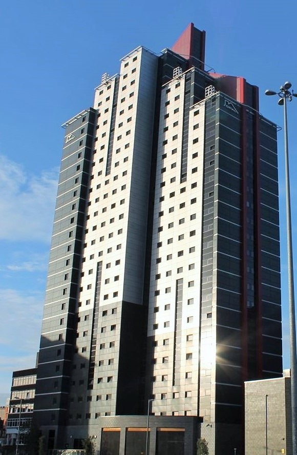 Leeds